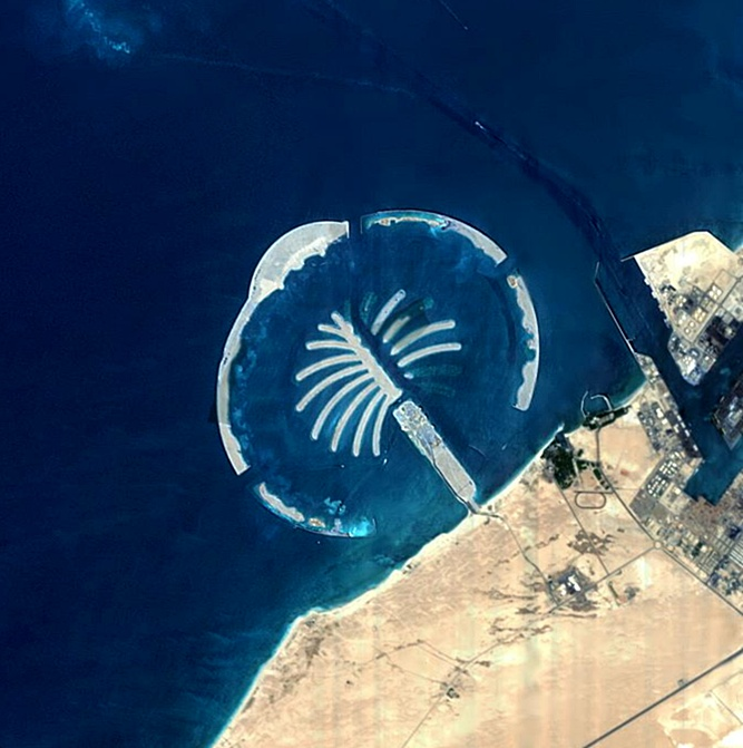 Satellite imagery of Palm Jebel Ali, Dubai, taken on 26 August, 2005. The artificial island can be seen still under construction. Straight lines in the sea resemble trenches from ships taking up sand from the ground as material for construction.